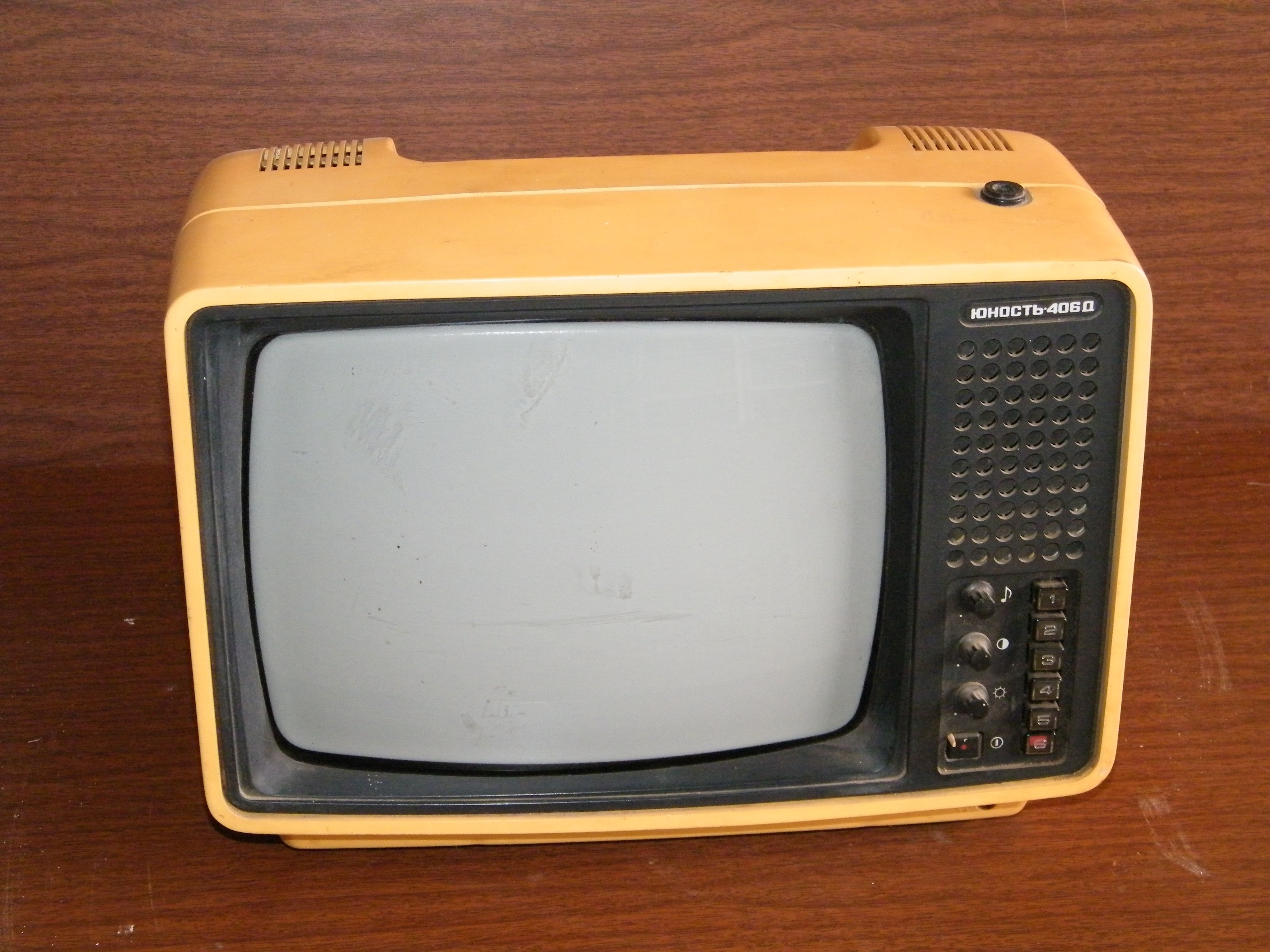 Television sets